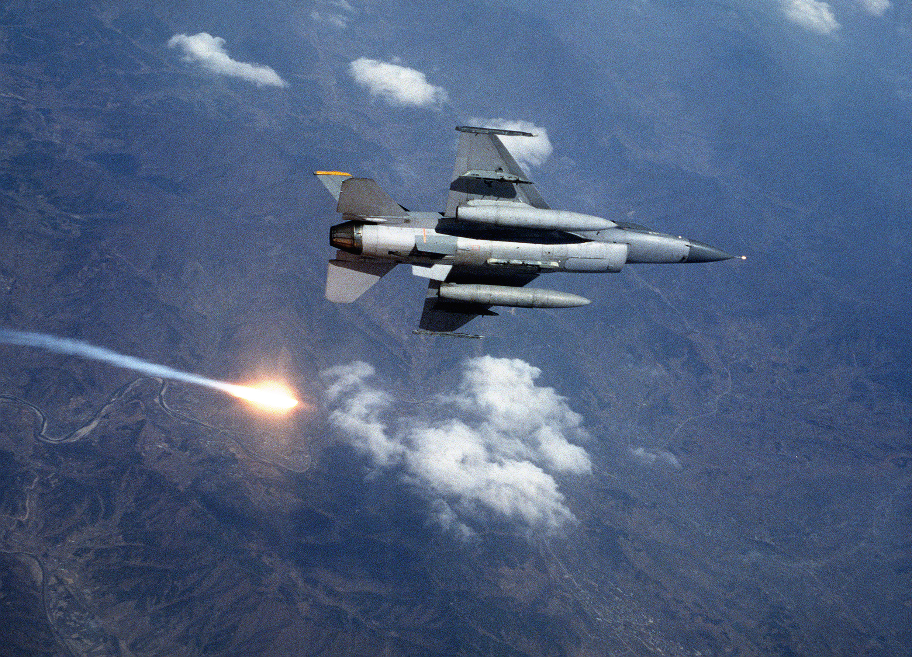 An 8th Tactical Fighter Wing F-16 Fighting Falcon aircraft releases a flare as a countermeasure for heat-seeking missiles during Exercise Team Spirit '86.